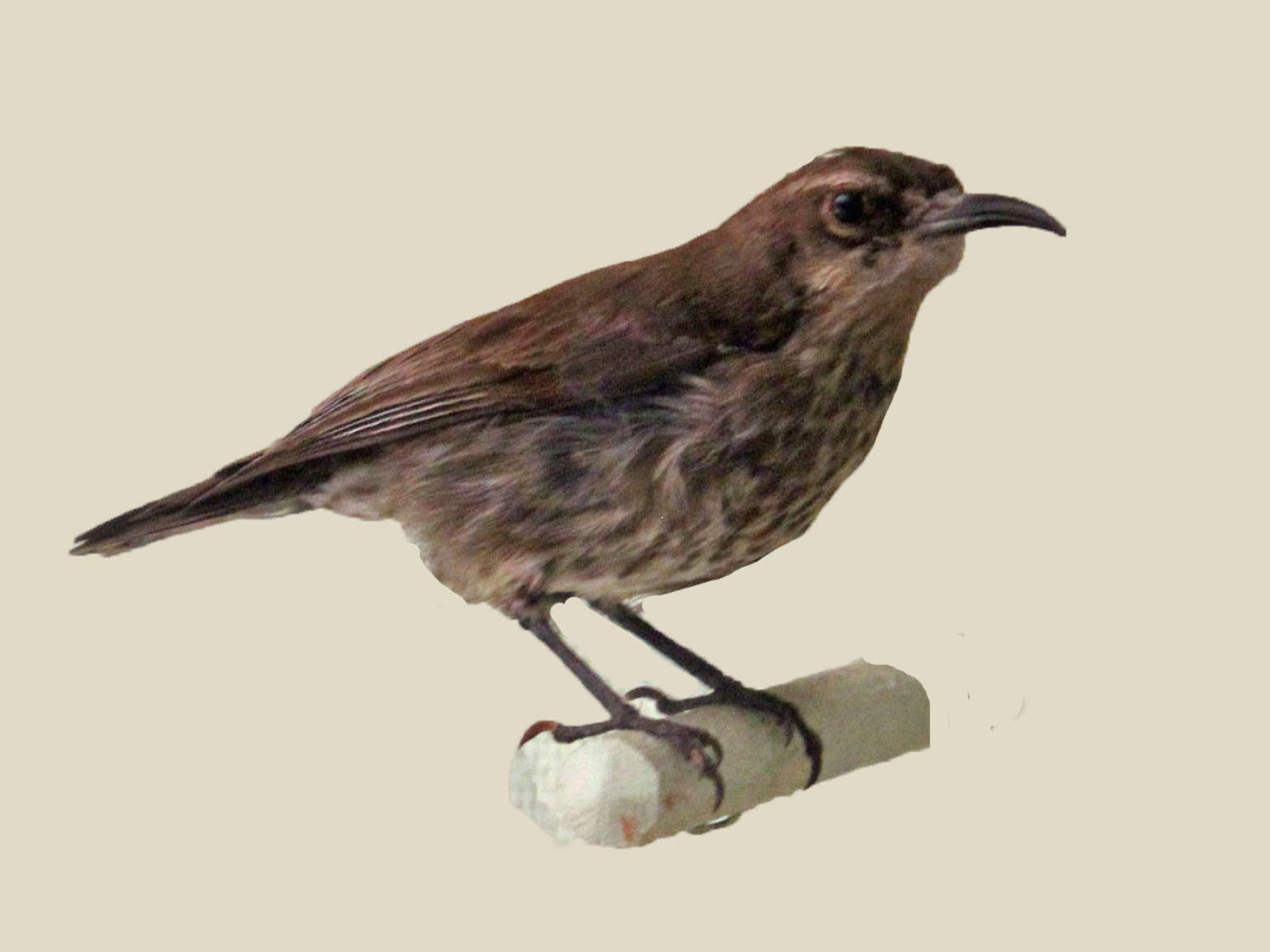 Female Green-throated Sunbird (Chalcomitra rubescens). Photograph of a specimen at Nairobi National Museum in Nairobi, Kenya.